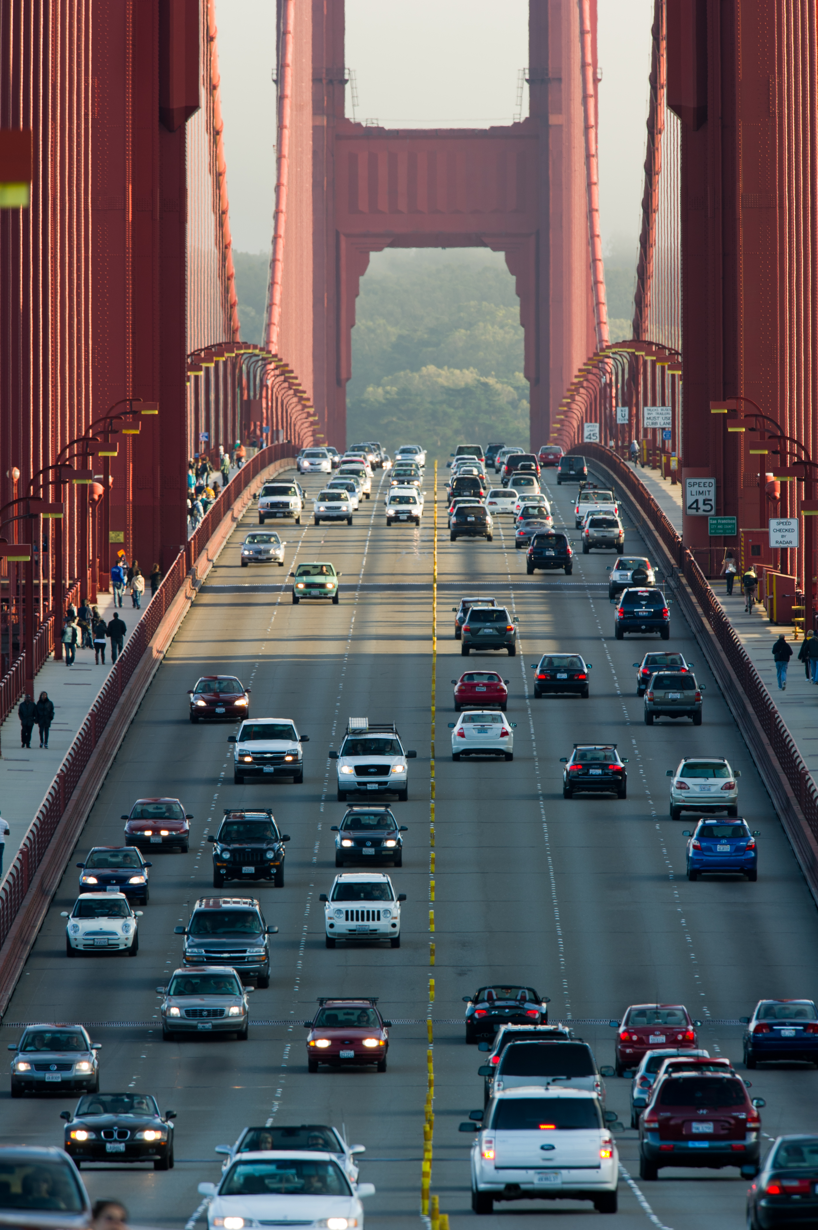 Golden Gate Bridge from the North end. Telephoto of car lanes.